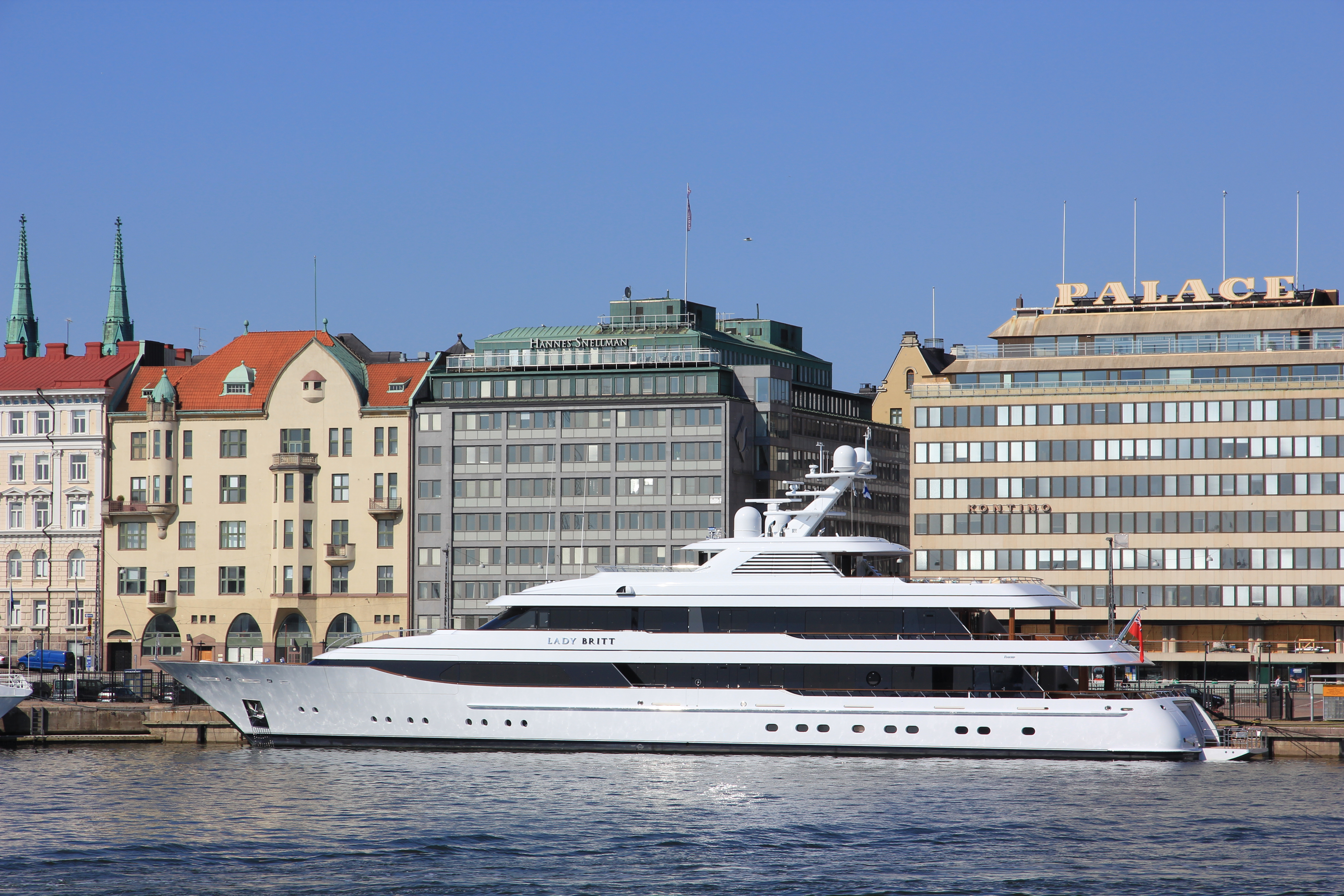 Luxury yacht Lady Britt in Helsinki South harbour.